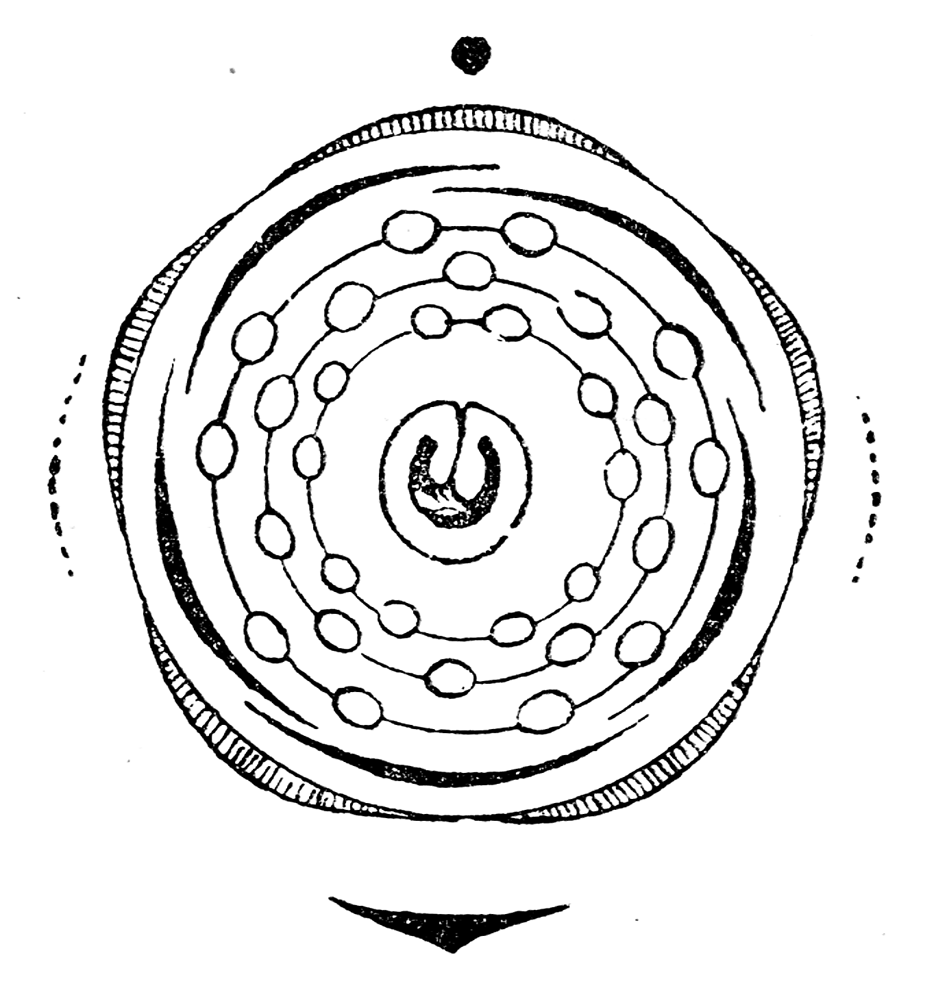 Diagram of a flower of Prunus padus (Rosaceae)